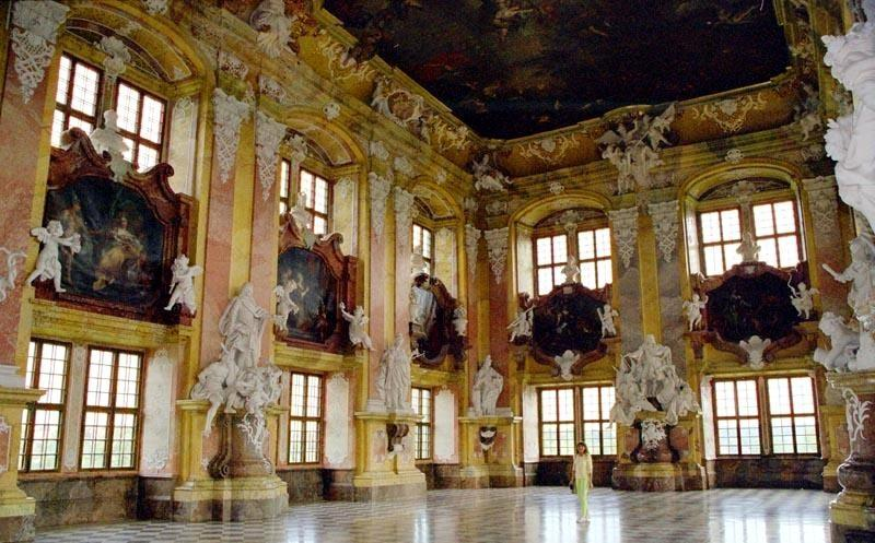 The eastern side of the Fürsten hall in the monastery in Lubiąż.